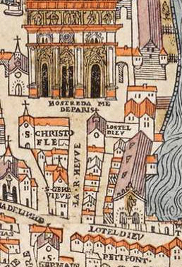 Hôtel-Dieu de Paris on the plan de Truschet and Hoyau (1550).